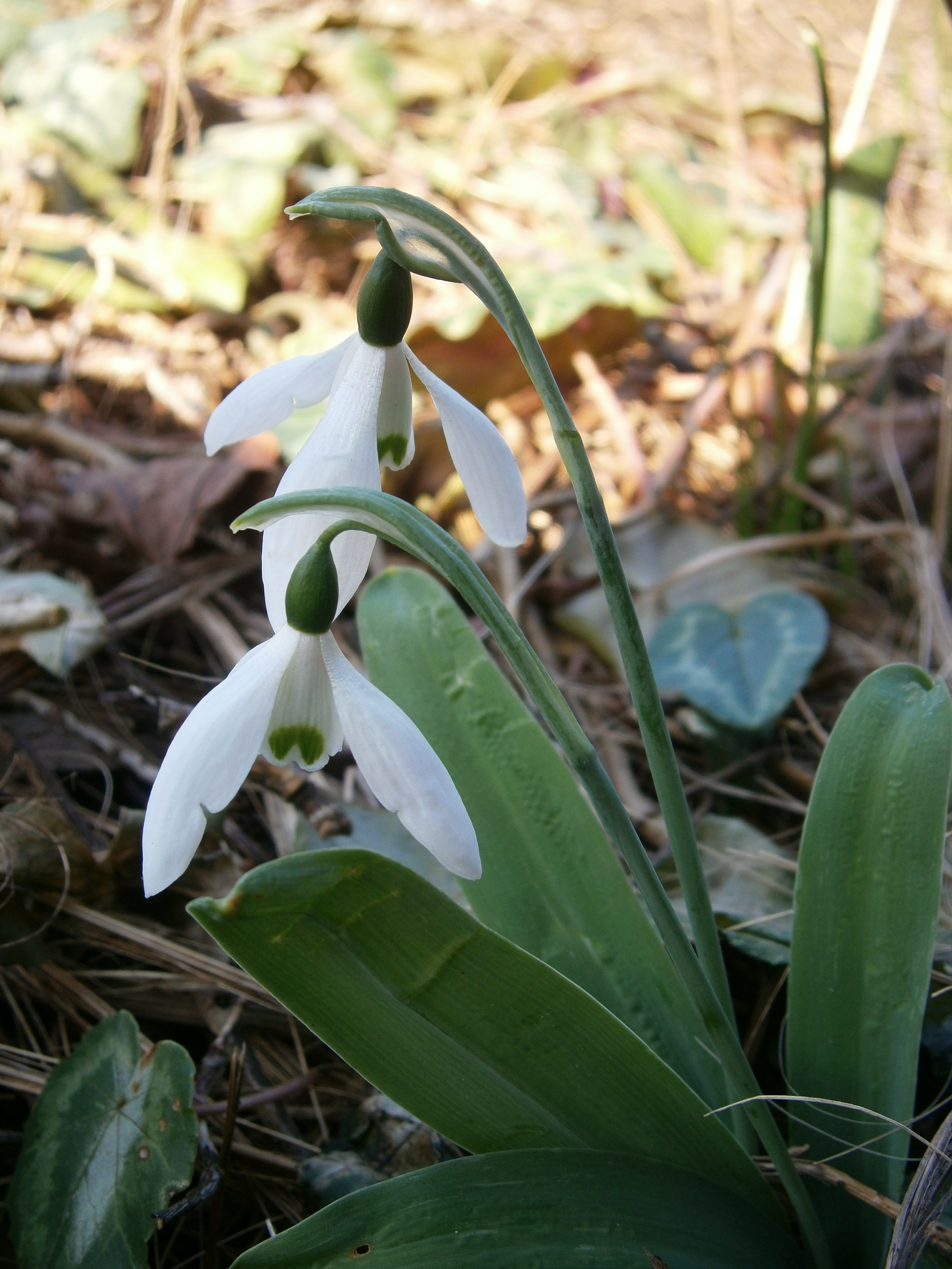 Galanthus elwesii var. monostictus